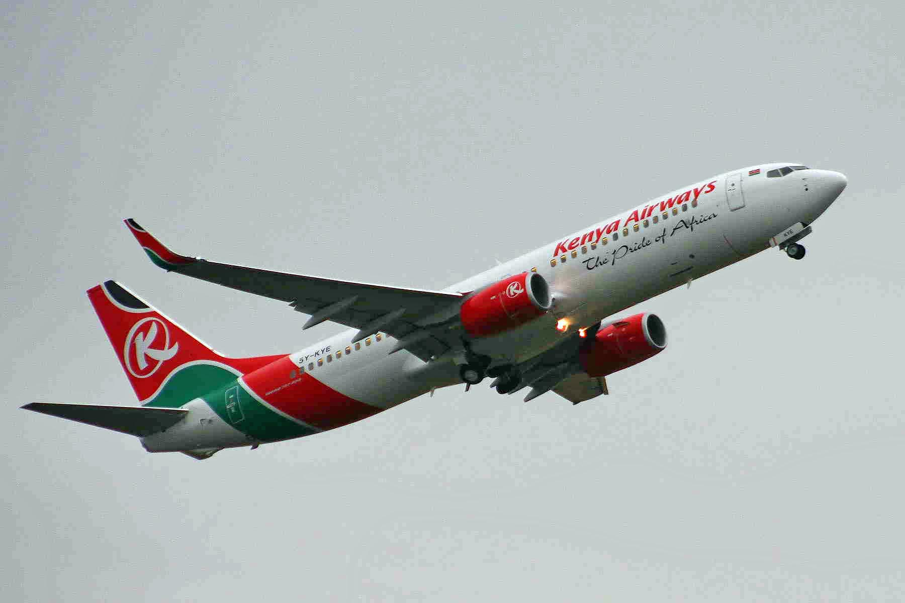 En-route Boeing Field (BFI) / Nairobi (NBO) on delivery